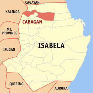 Map of Isabela showing the location of Cabagan